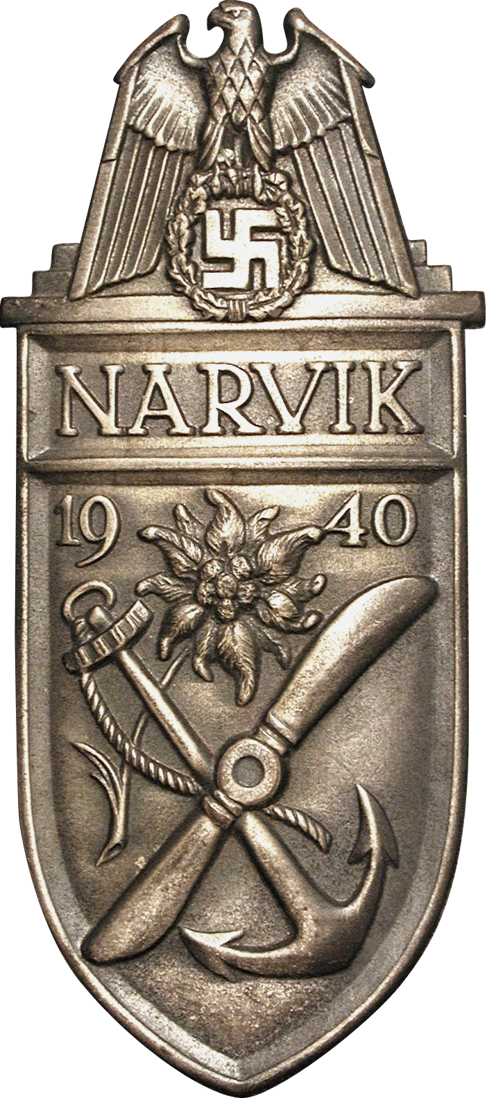 Narvik Shield (German: Narvikschild, Norwegian: Narvikskjoldet) was a World War II German military decoration awarded to all German forces that took part in the battles of Narvik between 9 April and 8 June 1940. It was instituted on 19 August 1940 as the first of a series of arm shield campaign awards. The award is seen sewn onto the upper part of the left sleeve of a Wehrmacht uniform tunic.